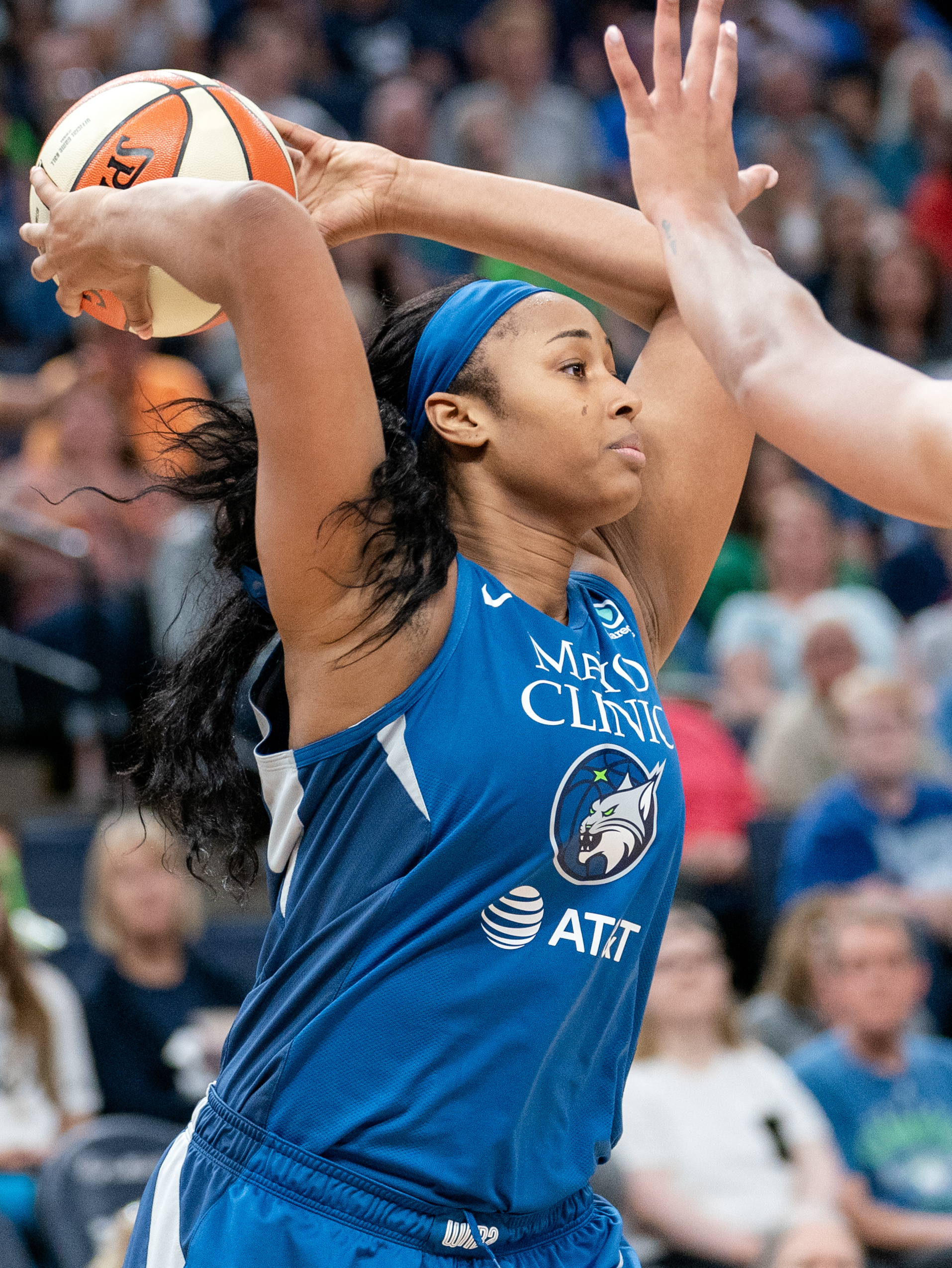 Minnesota Lynx vs Las Vegas Aces at Target Center in Minneapolis, MN on June 1, 2019; the Aces won the game 80-75.